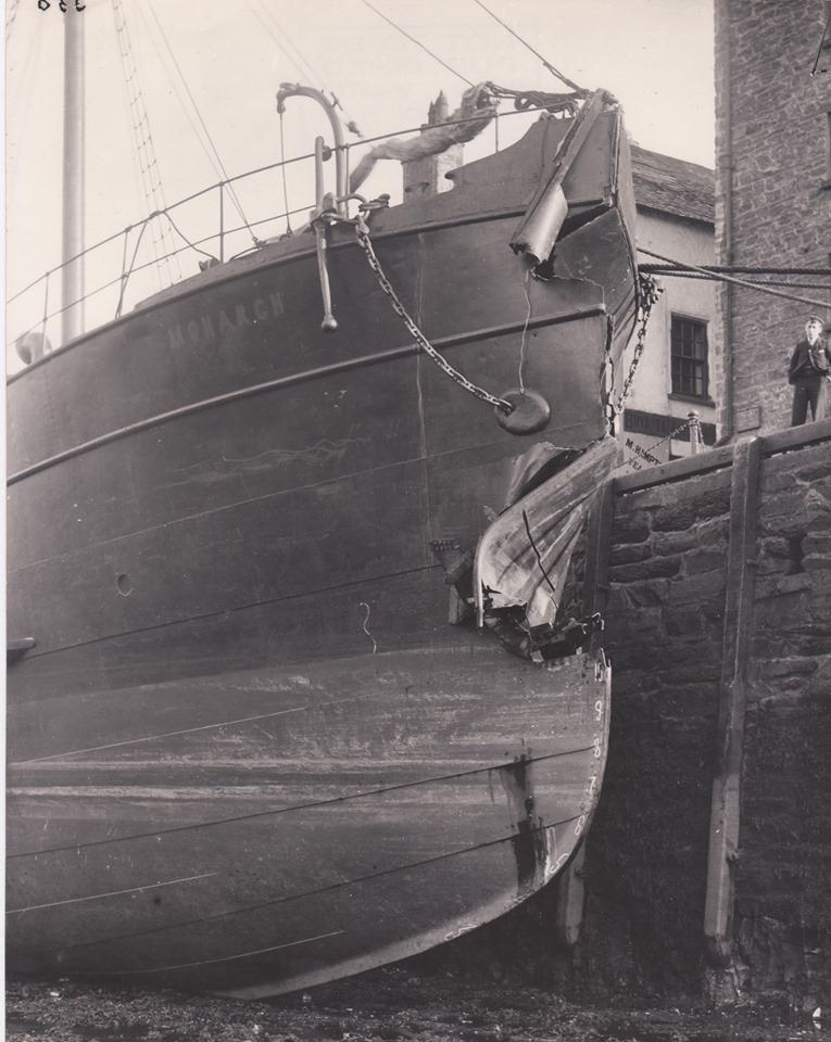 The bow of the tramp steamer Monarch, following her collision with the RMS Peveril.